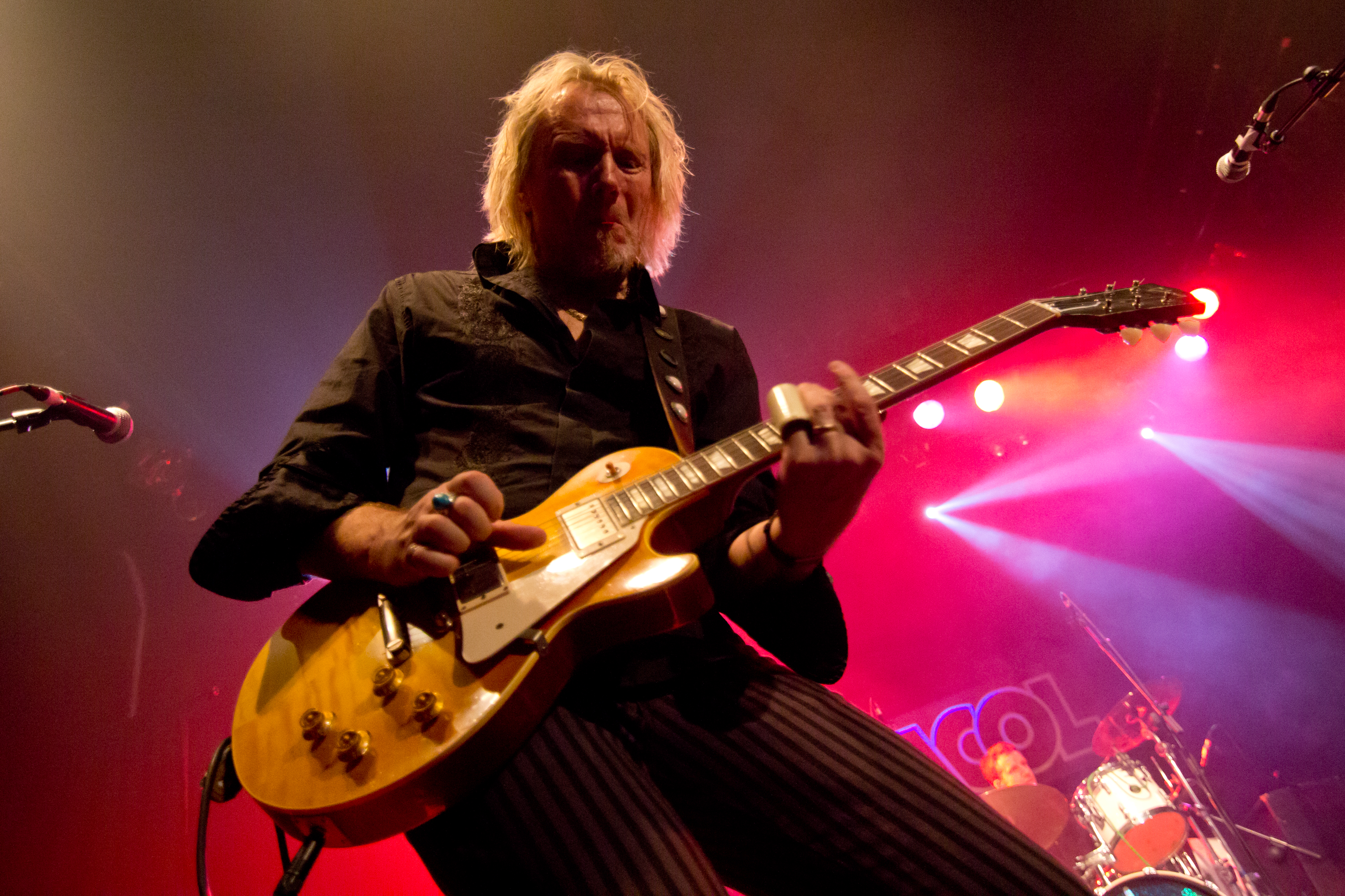 Rock band Wishbone Ash live in Madrid, Spain.